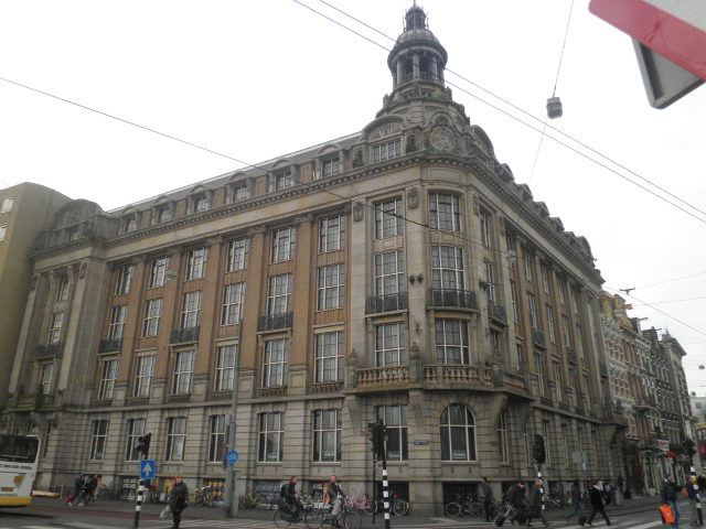 Build between 1917-1921 at the corner of the Prins Hendrikkade and the Martelaarsgracht, architect was E. Breman.